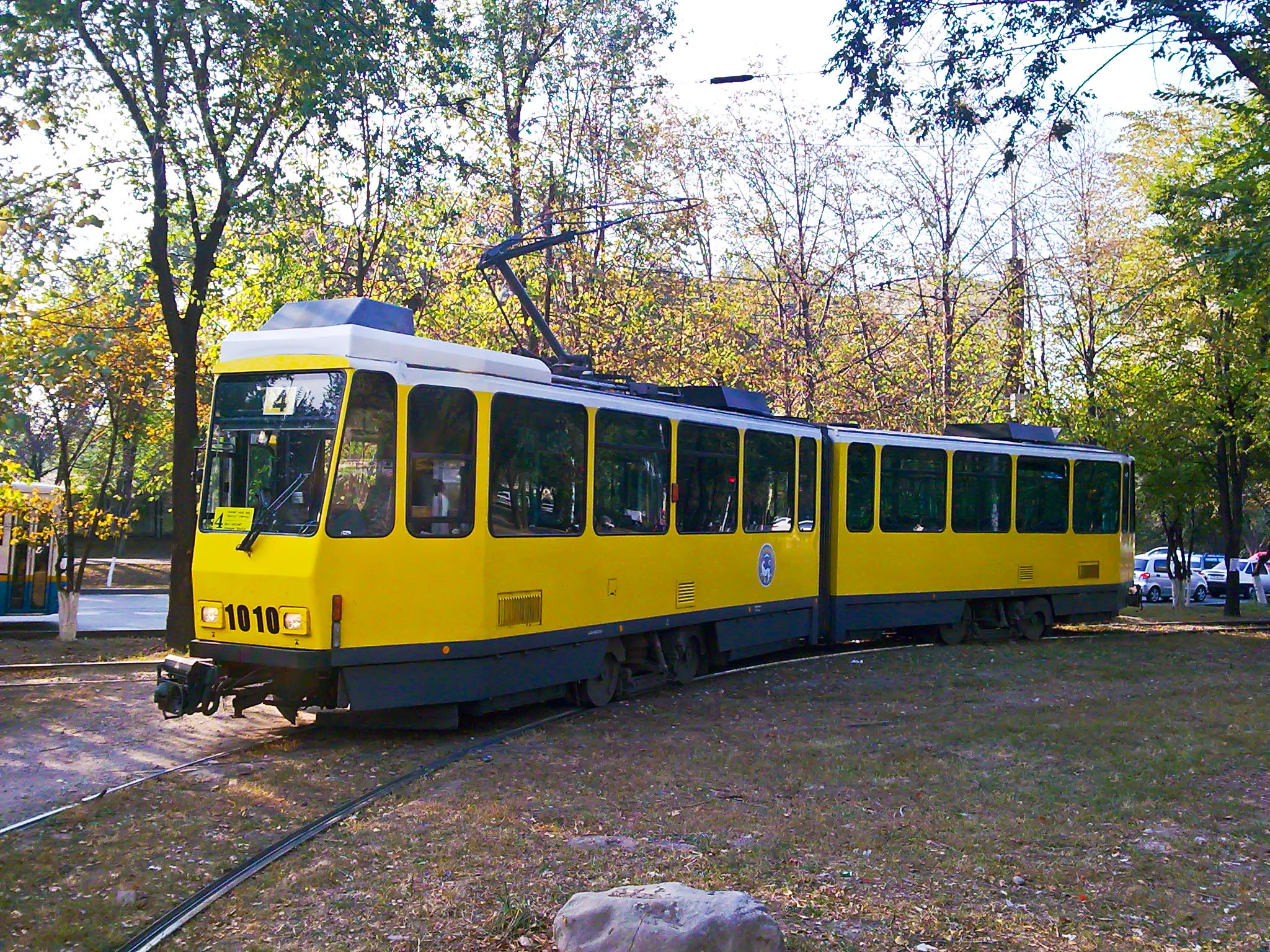 Tram in Almaty city, Kazakhstan.